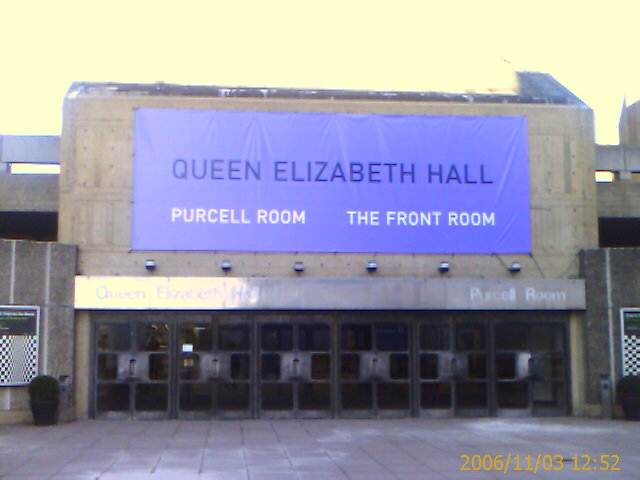 Queen Elizabeth Hall, London, main entrance at walkway level